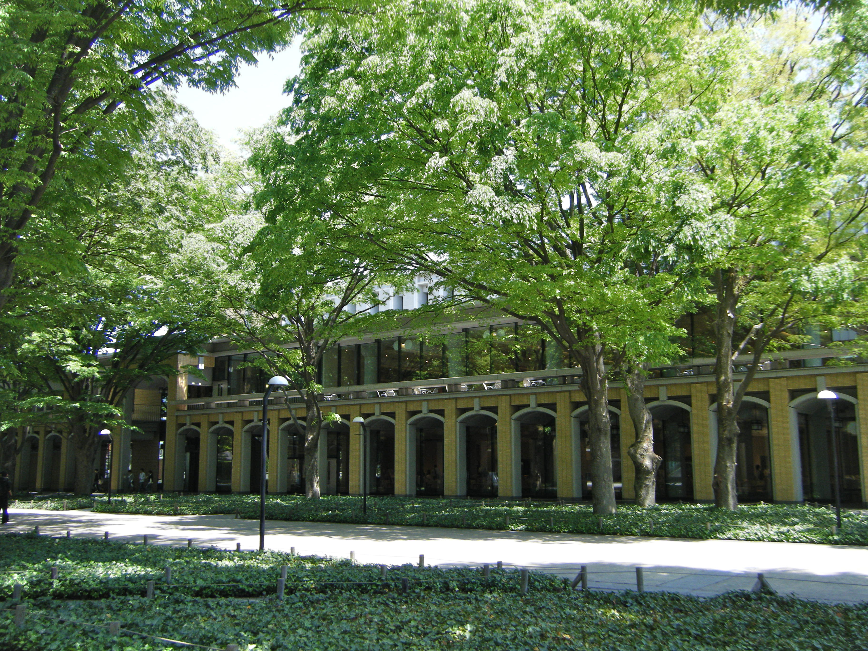 Bldg.G in Sagamihara campus of Aoyama gakuin university.